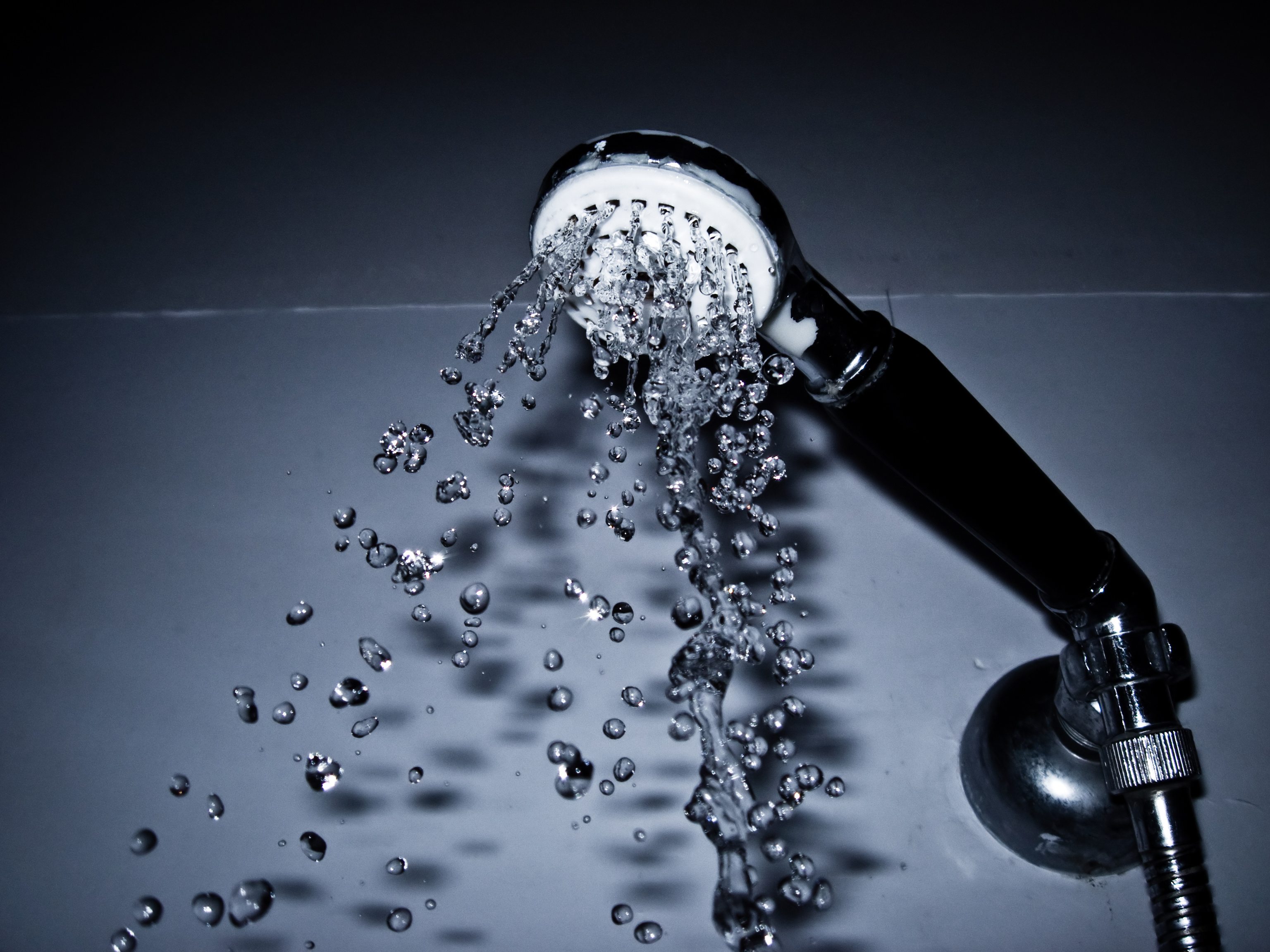 High-speed photograph of a showerhead dispensing water. Taken from [1], reduced noise with Neat Image 6.0.